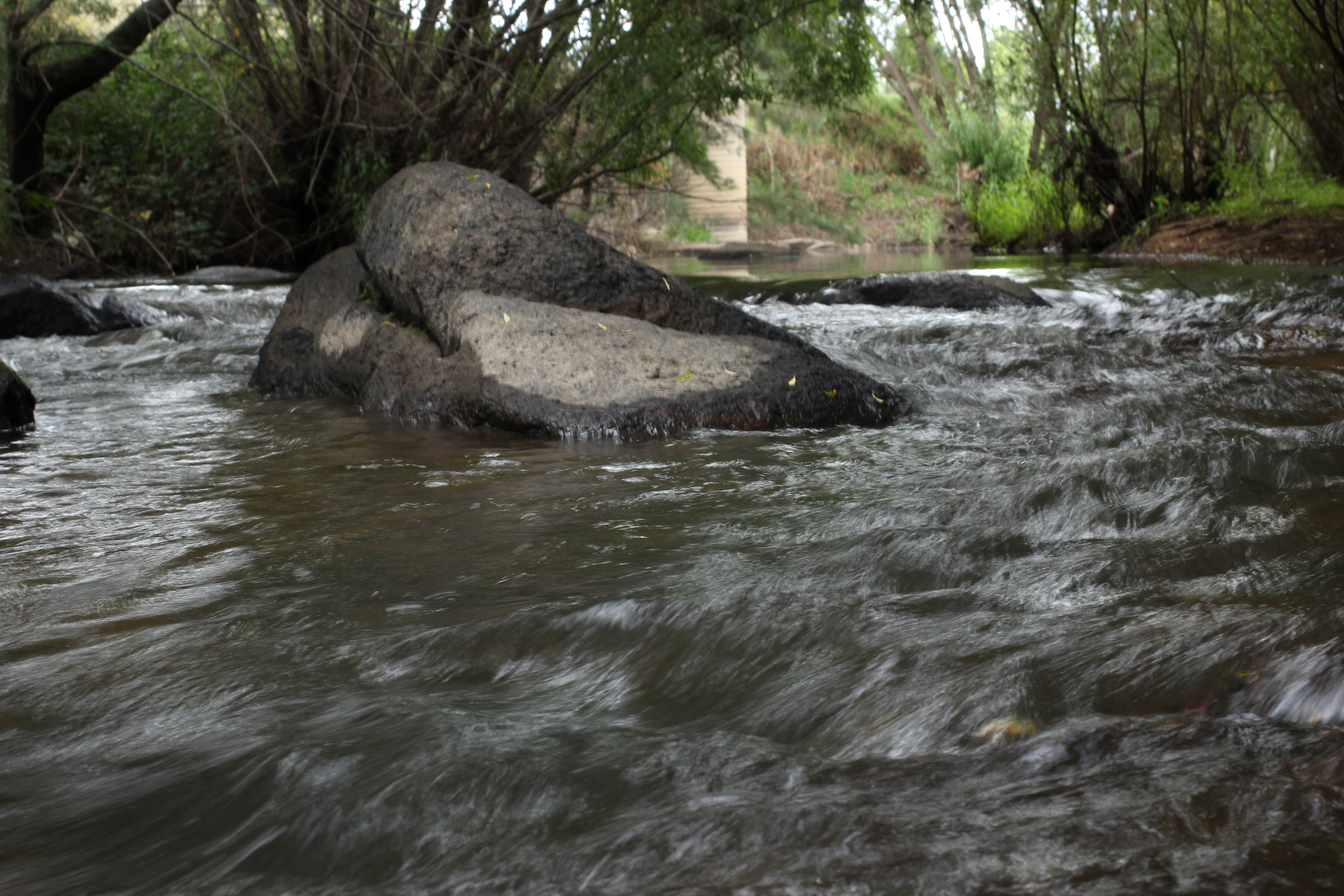 Fish River (Oberon) near O'Connell, New South Wales, passing under the O'Connell Road